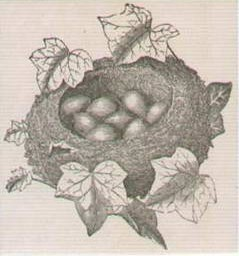 Goldcrest Regulus regulus nest and eggs. "A lovely engraving from a scarce British Victorian natural history book."